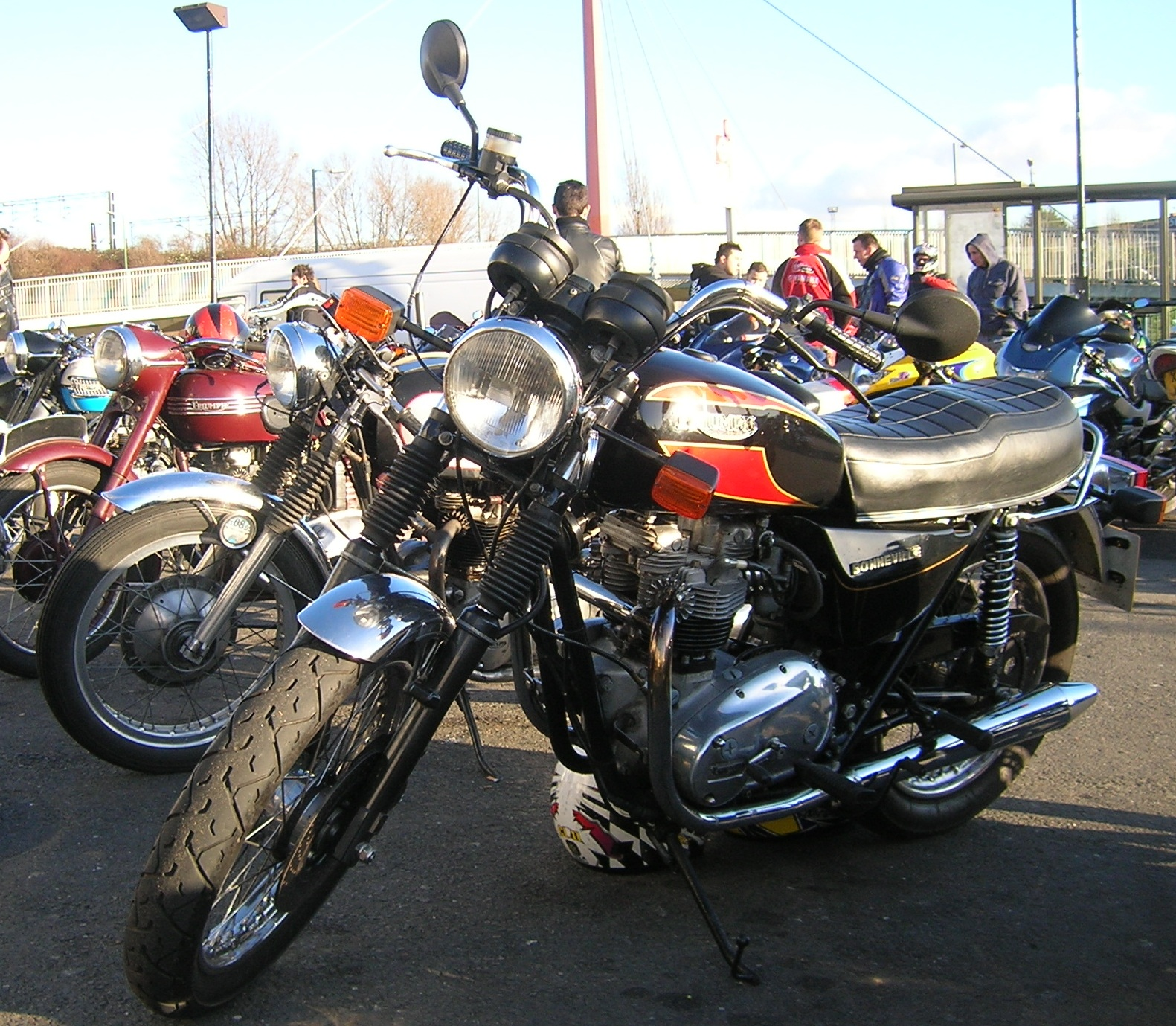 This example has aftermarket silencers replacining the original Lafranconi items. Those and the Paioli taps, front/rear suspension, Veglia clocks and petrol tank were sourced from Italy, the Magura switchgear and choke lever, Bumm mirrors, ULO indicators and Merit horn and spark plug caps from Germany.